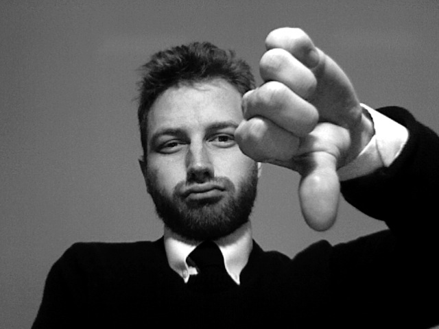 Sign of disapproval.